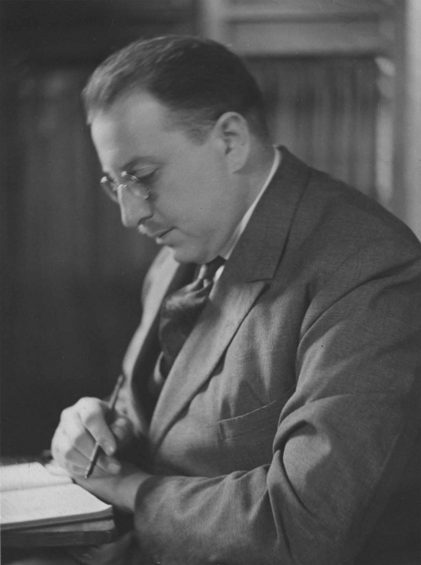 Taken in early 1940s in support of Haire’s application to write the series of articles titled 'A doctor looks at life' in "Woman".